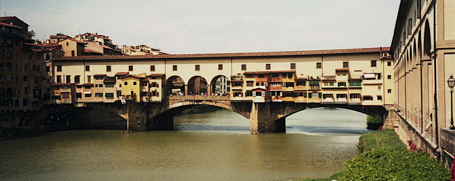 Ponte vecchio, Firenze, Tuscany, Italy, Europe